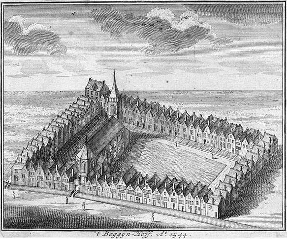 Anonymous. Begijnhof, Amsterdam, 1544. 1729. Etching. Amsterdam, Stadsarchief Amsterdam.